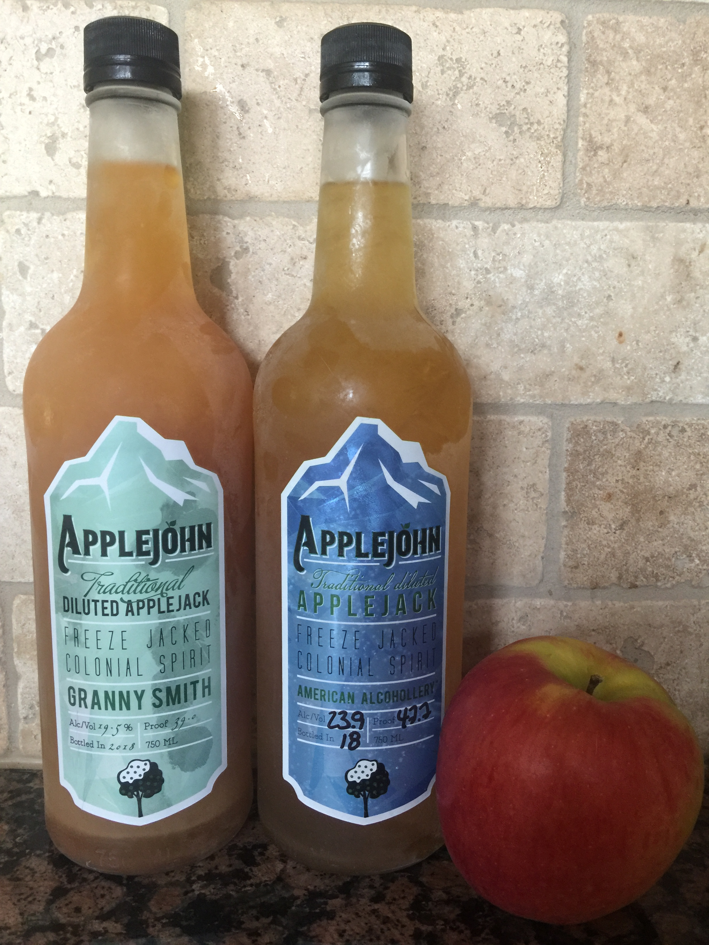 Our first Applejohn Applejack, Blue label blend and Granny Smith